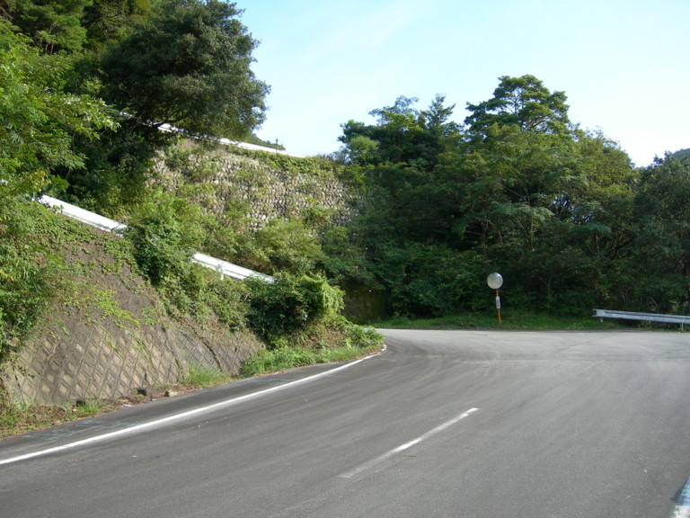 Nomizaka pass at Mie prefectural route No.22, between Watarai and Minami-ise in Japan.